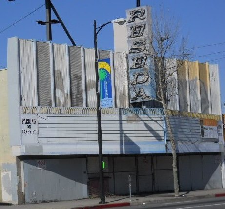 Vacant Reseda Theater — cinema on Sherman Way in Reseda of the western San Fernando Valley, in the City of Los Angeles, California.